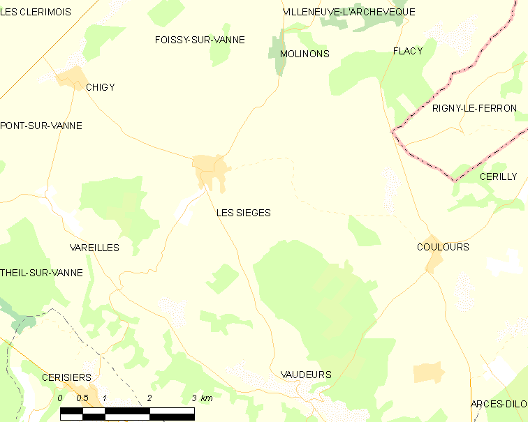 Map of French municipality Les Sièges